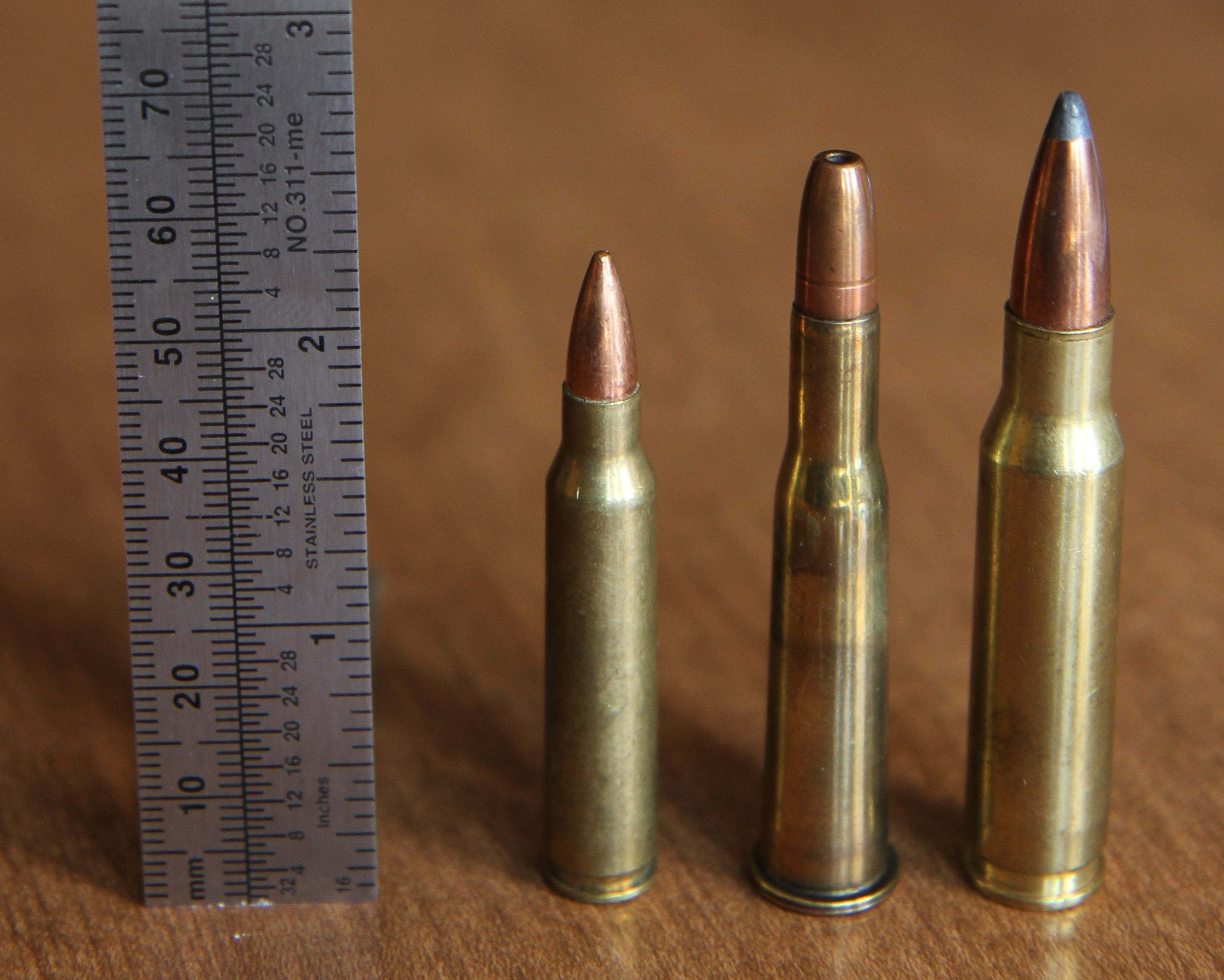 A .25-35 Winchester cartridge (center) next to a metric/imperial ruler with .223 Remington (left) and .308 Winchester (right) cartridges for comparison.